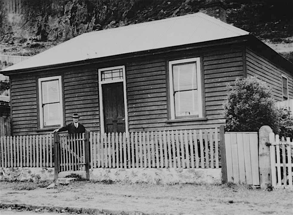 Joseph Lyons (as prime minister) standing in front of his birthplace and childhood home in Stanley, Tasmania